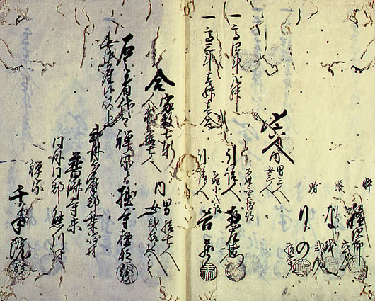 A 宗門人別改帳 Shumon Jinbetsu Aratamecho